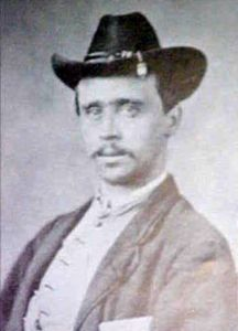 Wilson Wright Brown, Union Army soldier and participant in the Great Locomotive Chase.